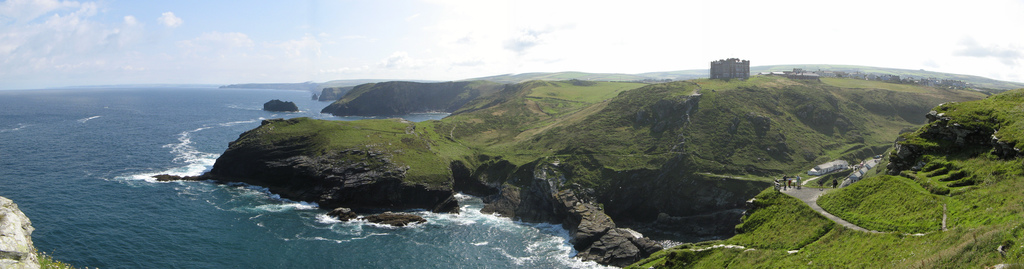 A panorama of exterior of Tintagel Castle in its landscape. Camelot Castle Hotel and Barras Nose in the foreground